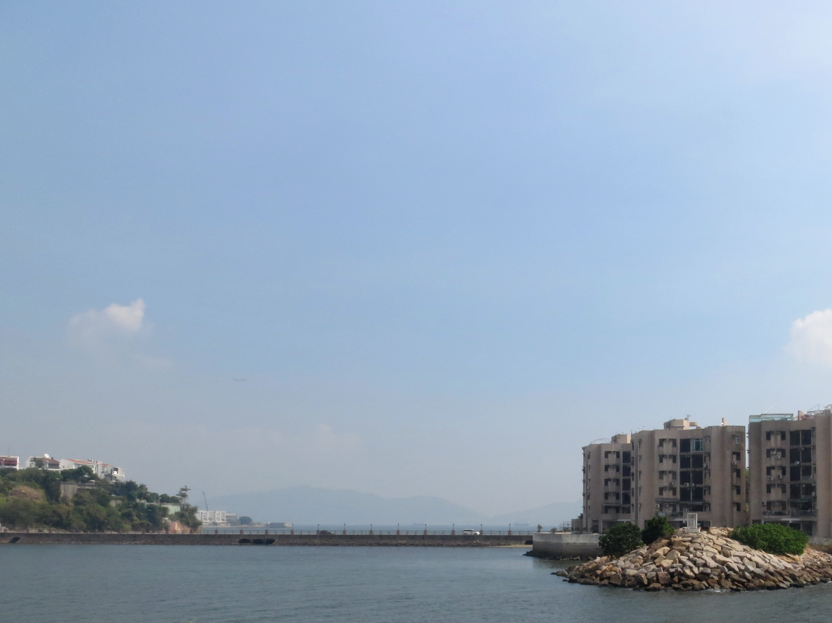 Tsing Lung Road connecting Pearl Island Garden (right) and Beaulieu Peninsula (left)